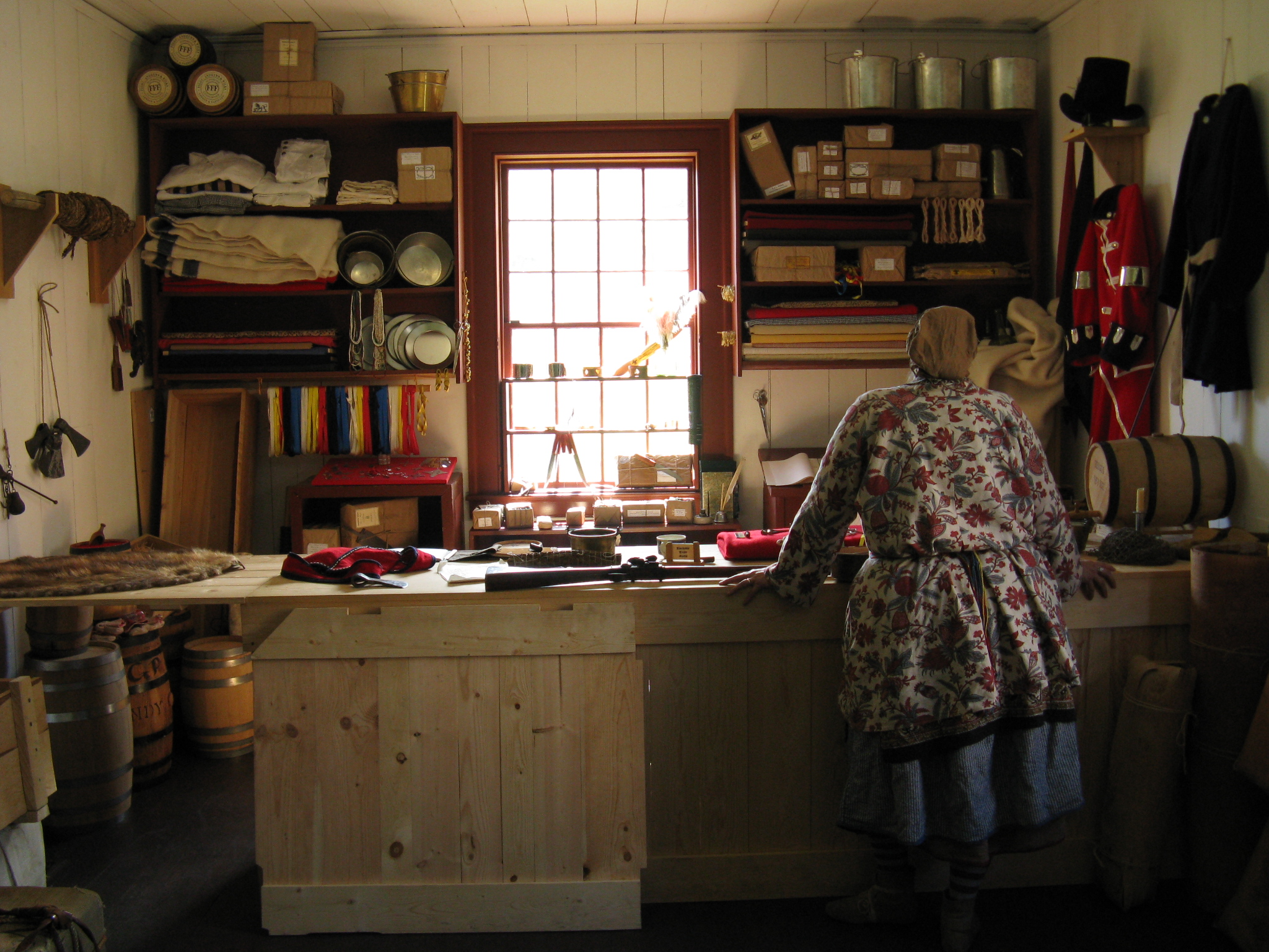 Grand Portae National Monument, Minnesota, USA. A visiting reenactor in the Grand Portage reconstructed trade shop located within the Great Hall.